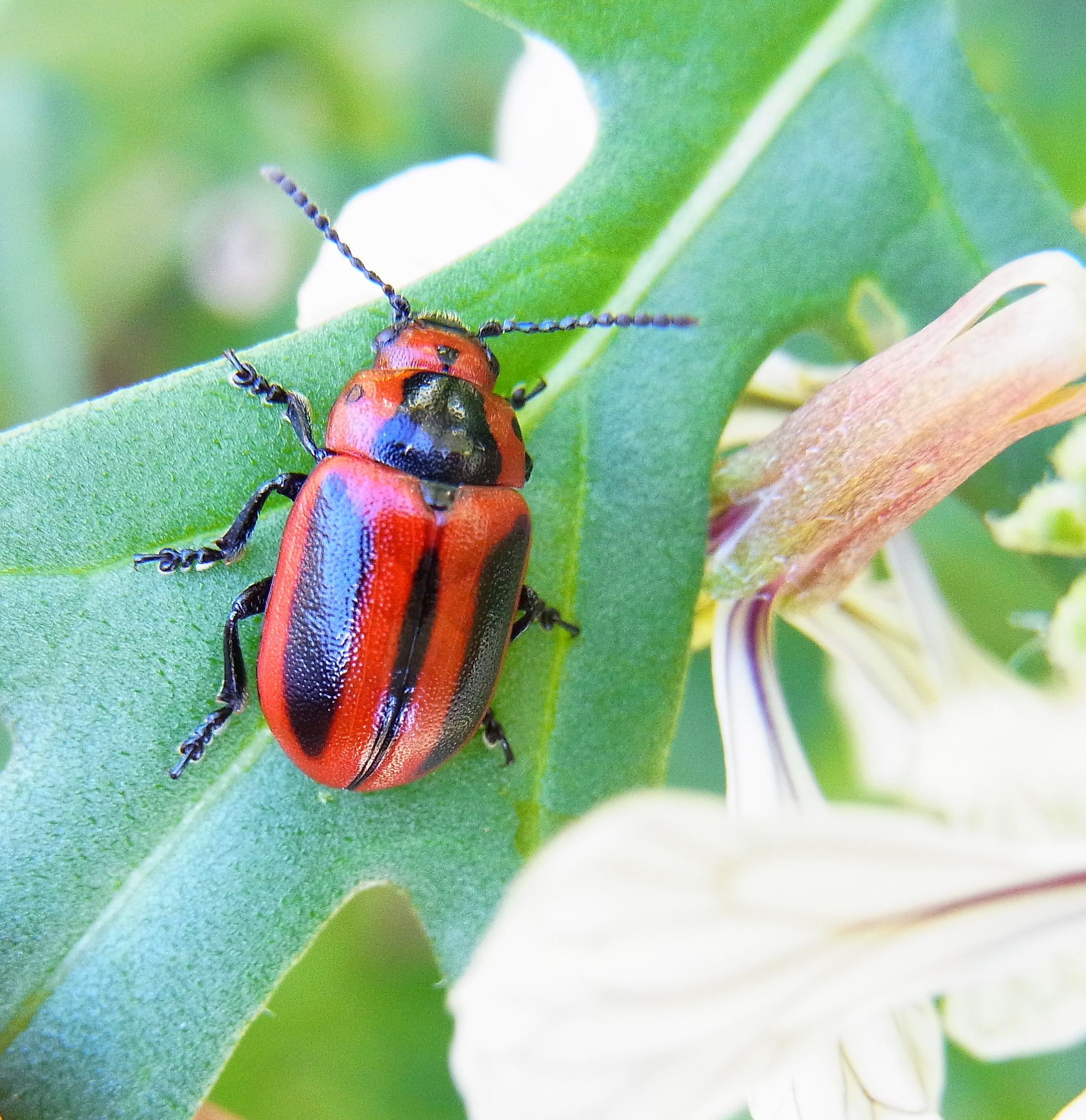 Entomoscelis adonidis from Arguedas, Navarra, northern Spain, at 2013-05-24 under bark of Picea